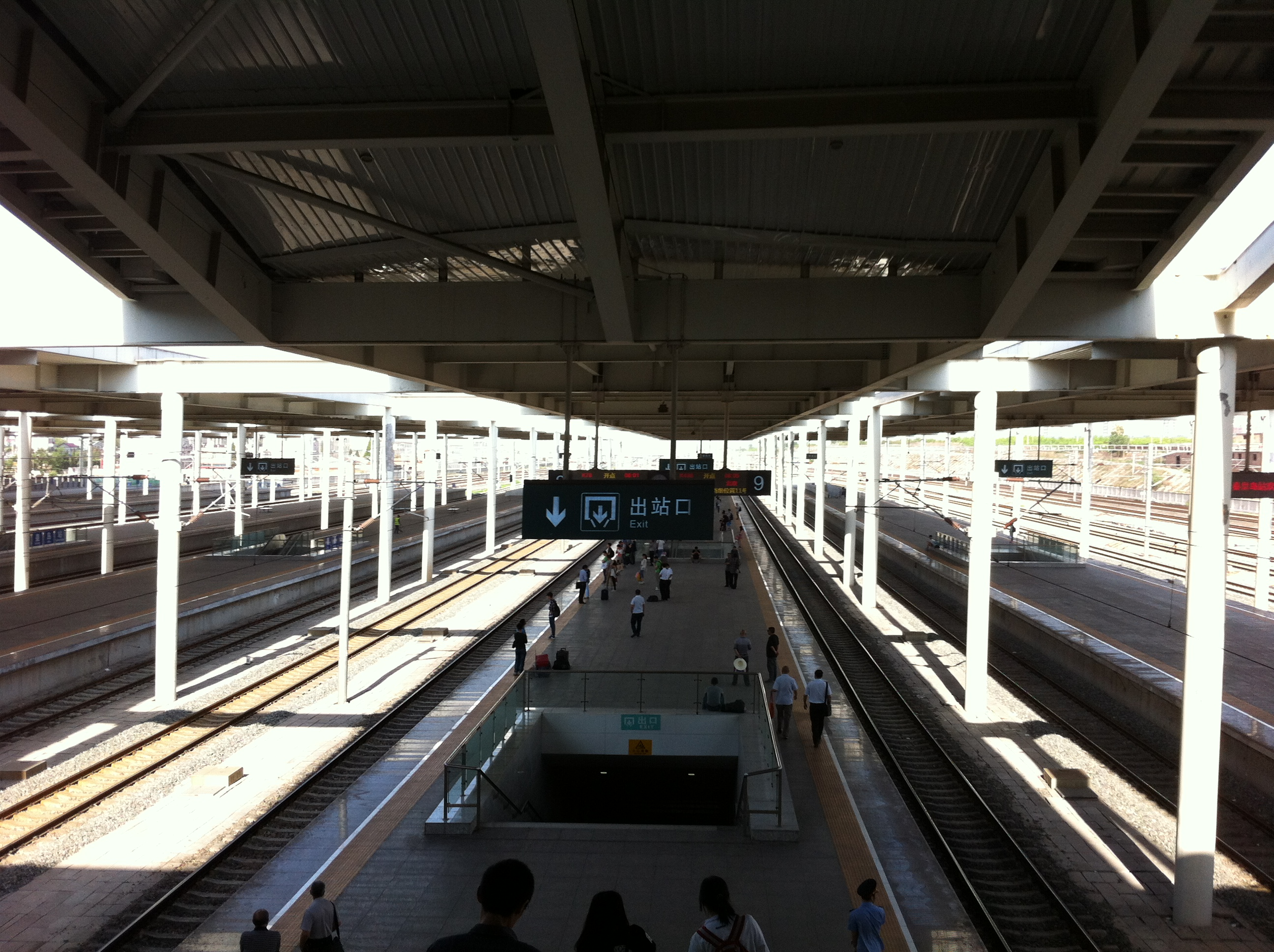 The 8-9 platform of Qinhuangdao Railway Station. At that time, we were waiting for the delayed K498 from Jagdaqi back to Beijing.